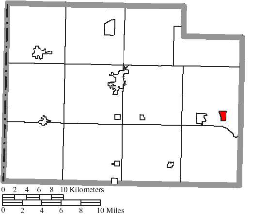 Map of the municipal and township boundaries of Paulding County, Ohio, United States, as of the 2000 census, with the location of the village of Oakwood highlighted. Township borders are shown only in unincorporated areas in order to differentiate incorporated and unincorporated areas more clearly.